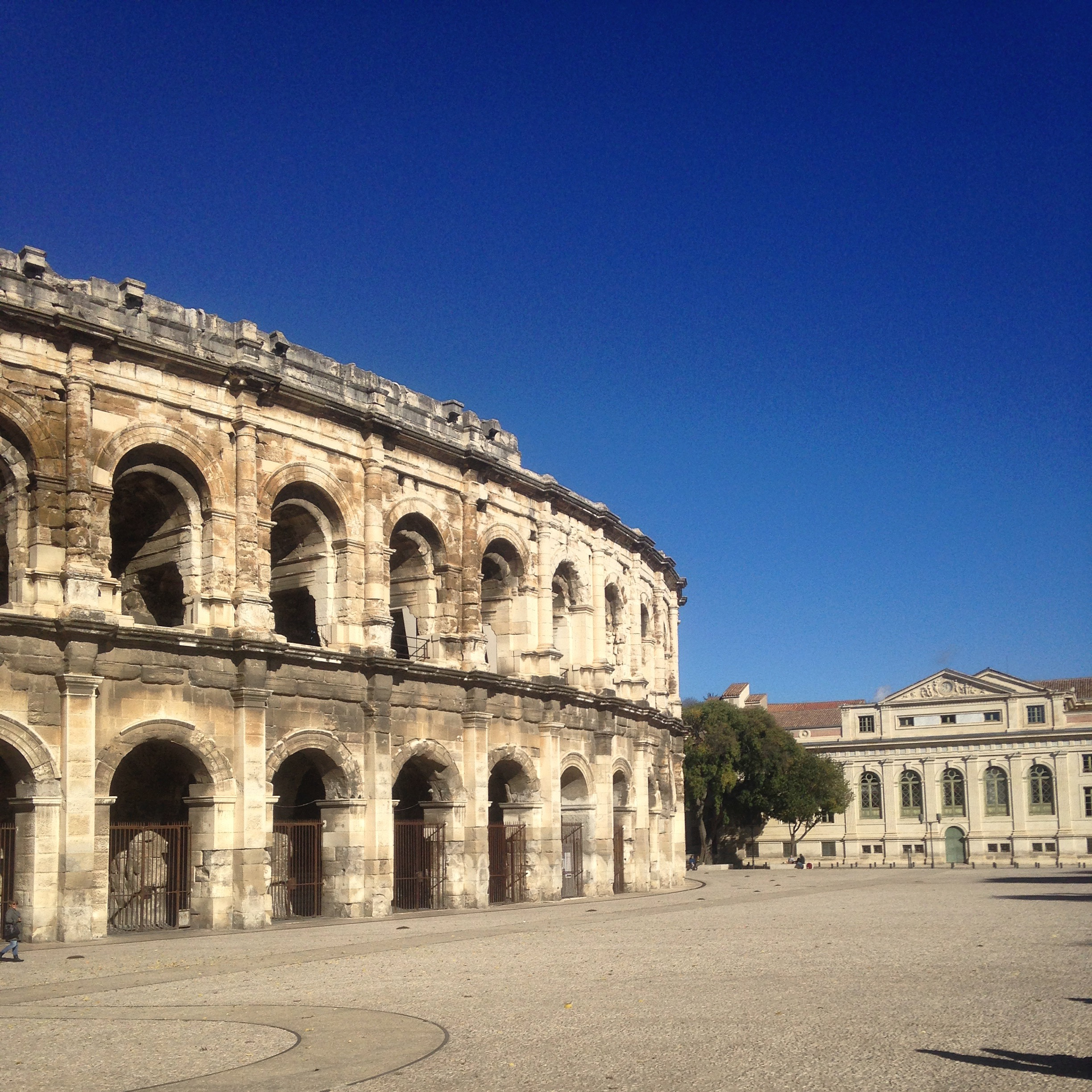 Nîmes, Arena of Nîmes. .